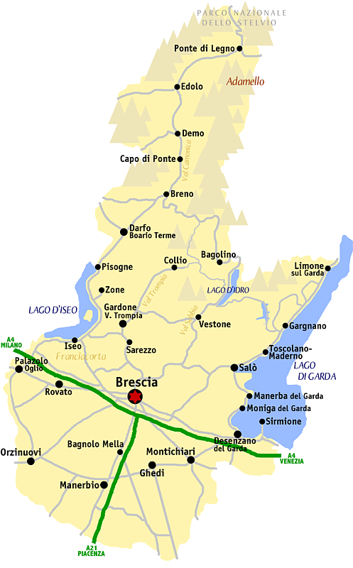 Map of the province of Brescia, Italy